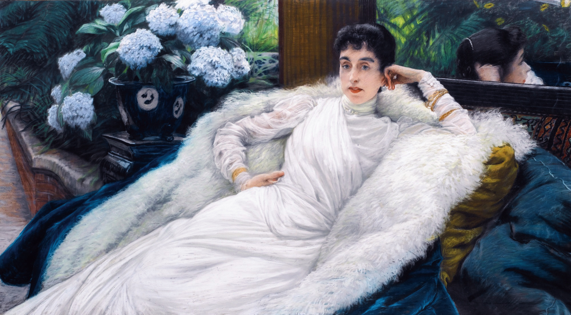 Clotilde Briatte, Comtesse Pillet-Will pastel on paper laid down on canvas 91 x 160.5 cm 1882-1902